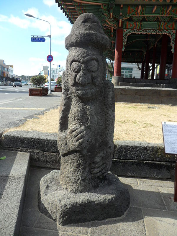 Dolhareubang in front of Gwandeokjeong.